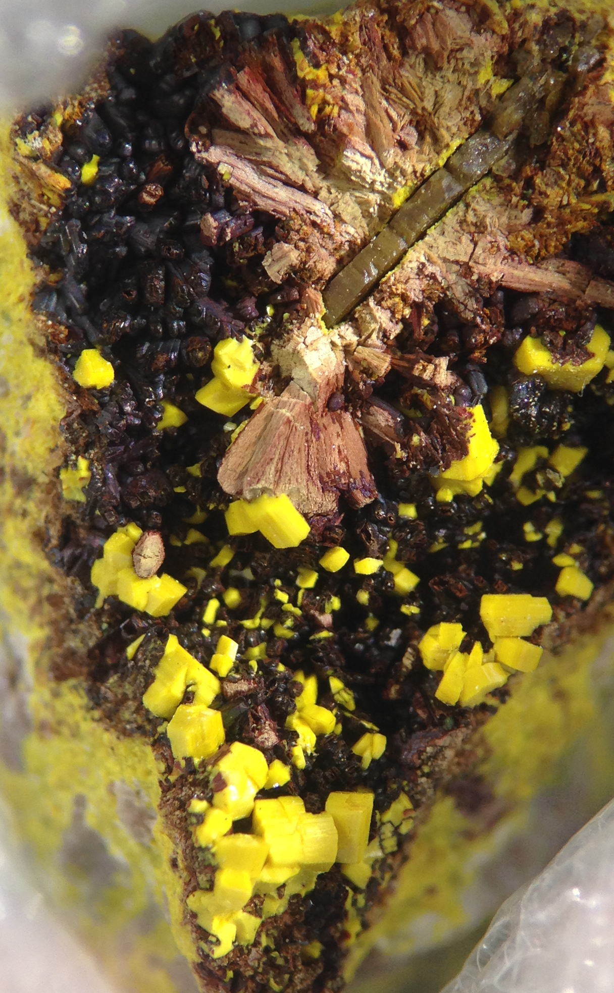 Soddyite (yellow) with Rutherfordine (brown) from Kolwezi Mine, D. R. Congo (Field of view: 1 cm)